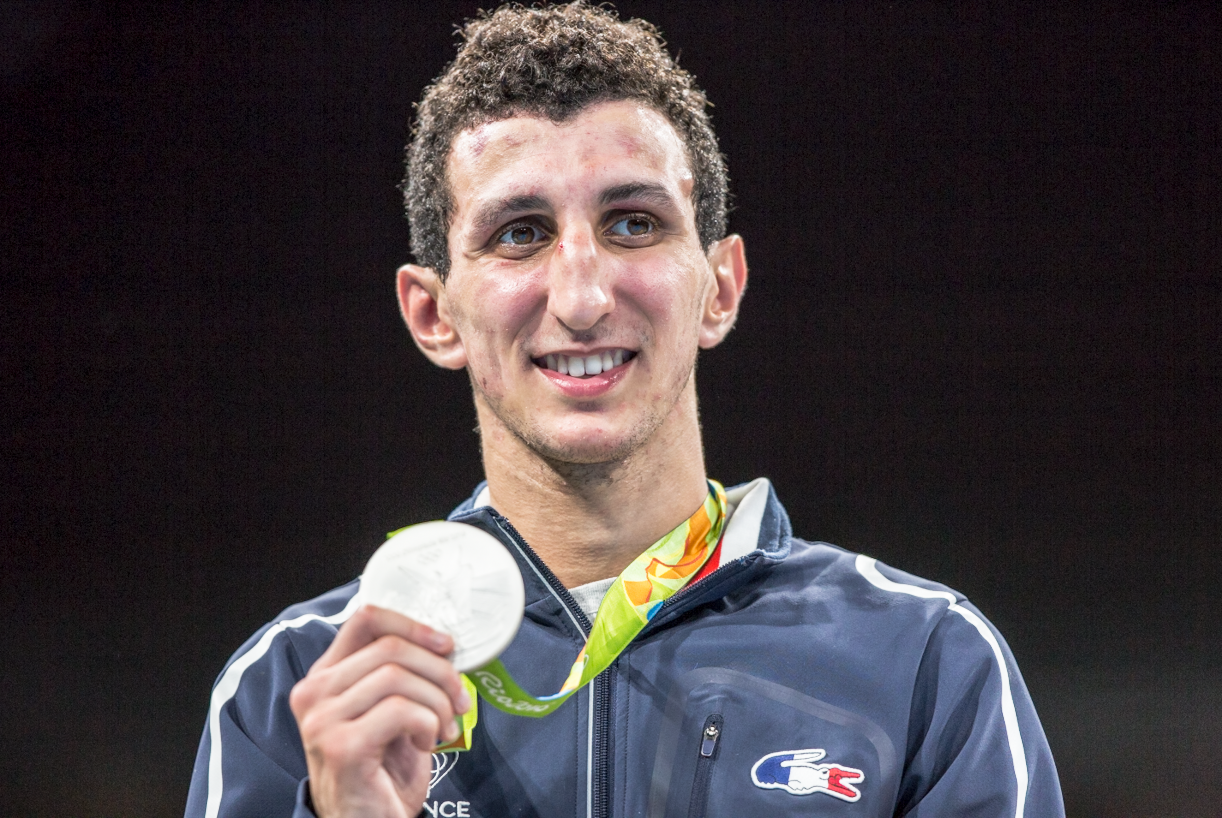 Medal Ceremony Men's 60 kg